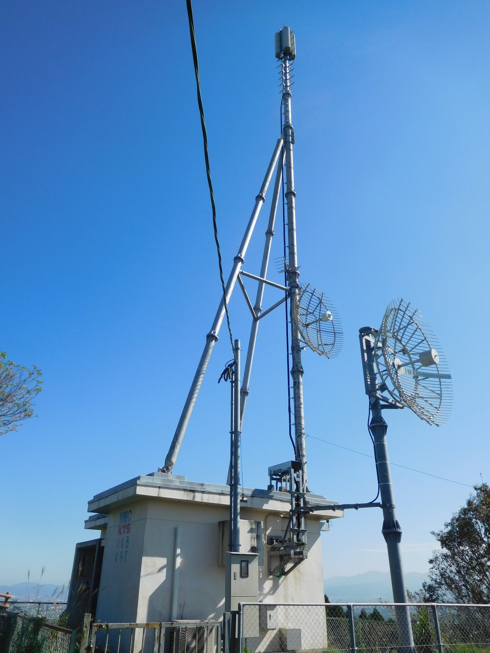 Sueyoshi Digital TV Repeater (MBC,KTS,KKB,KYT - Soo City, Kagoshima, Japan)